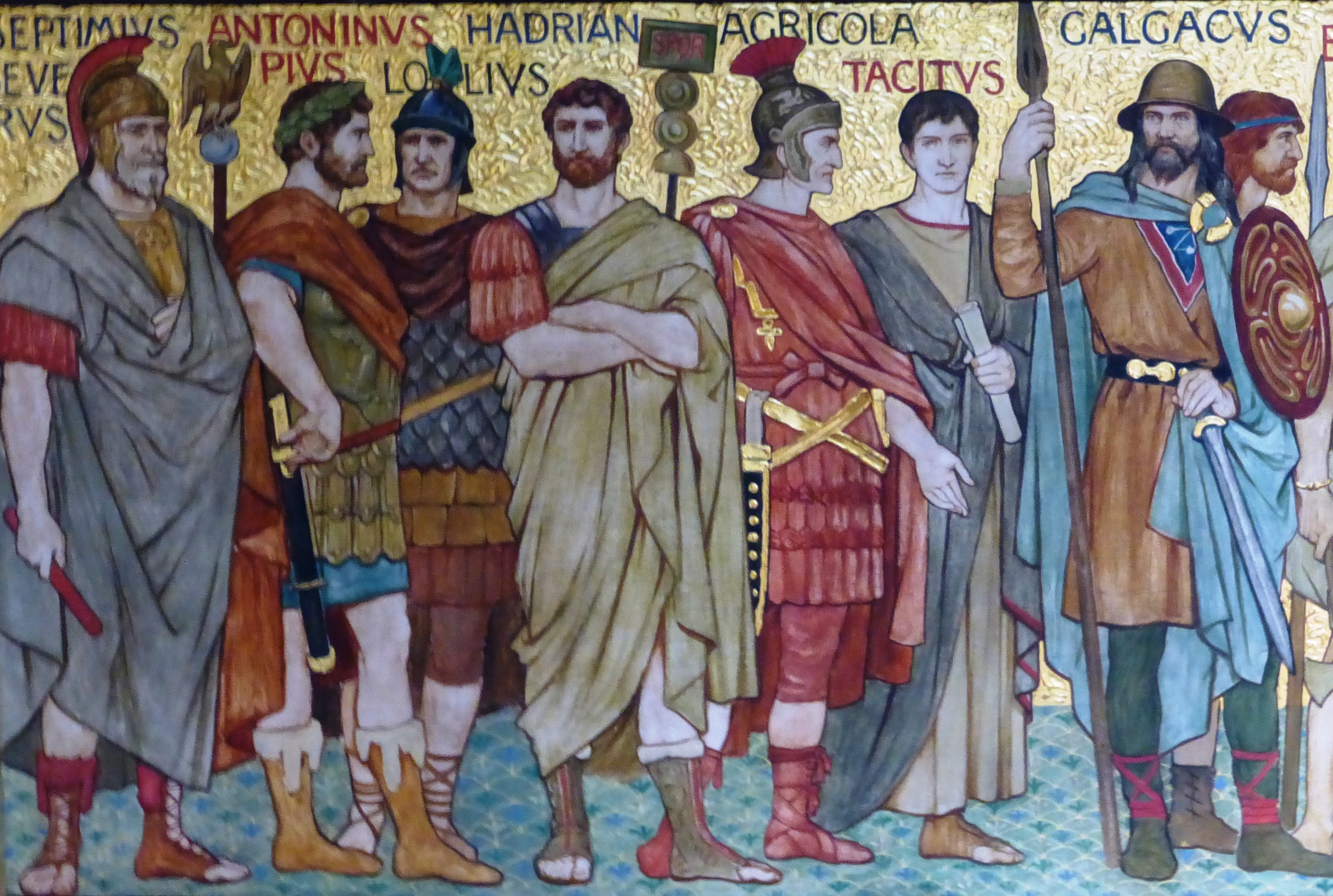 Notable figures from the Roman period in Scottish history painted by William Hole